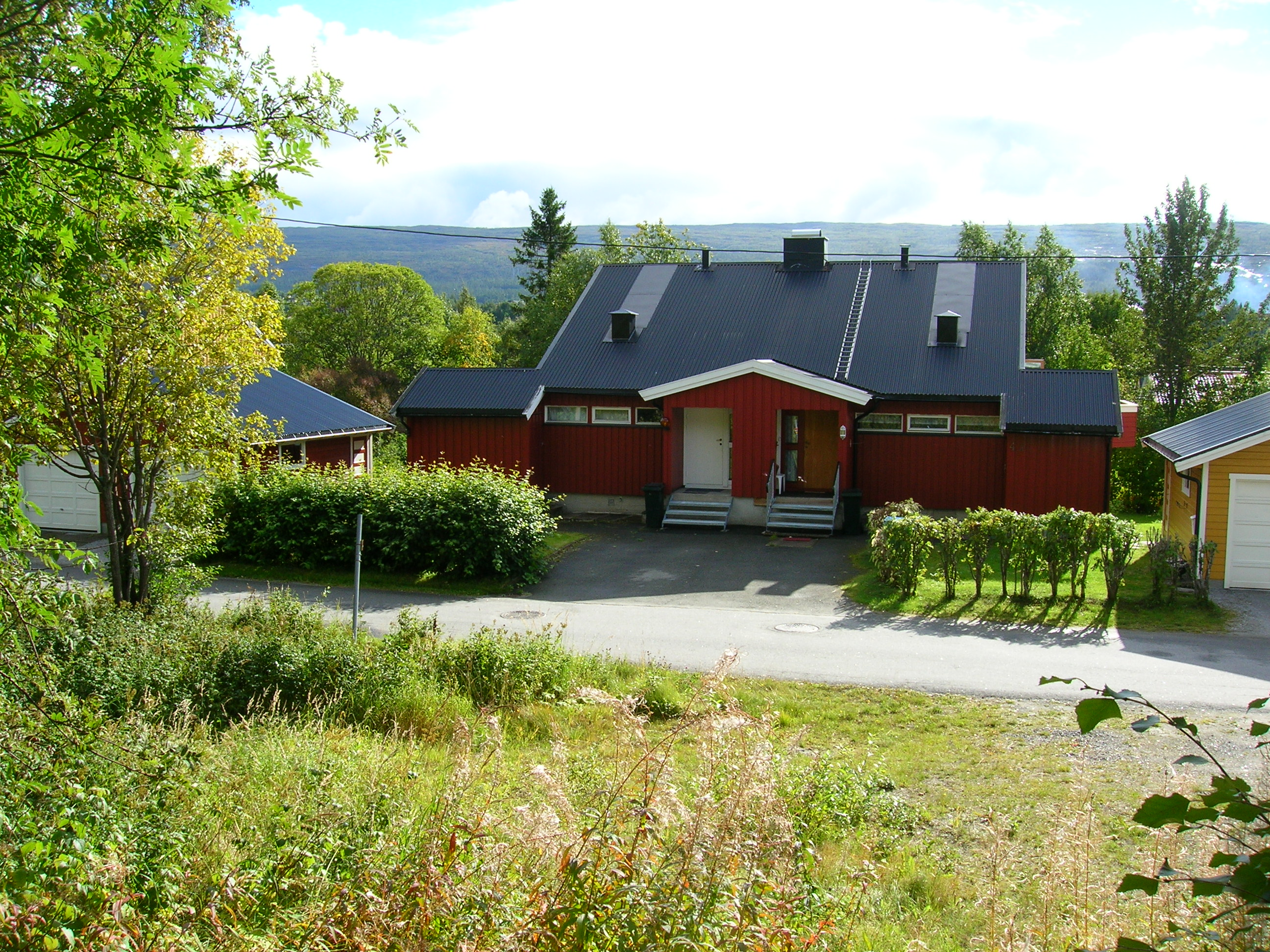 Lilleeng housing cooperative on Selfors, 4 km north of Mo i Rana, Rana municipality, county of Nordland, Norway, Photo 7 September, 2007 with a Nikon Coolpix 5600 5,1 Megapixel camera.